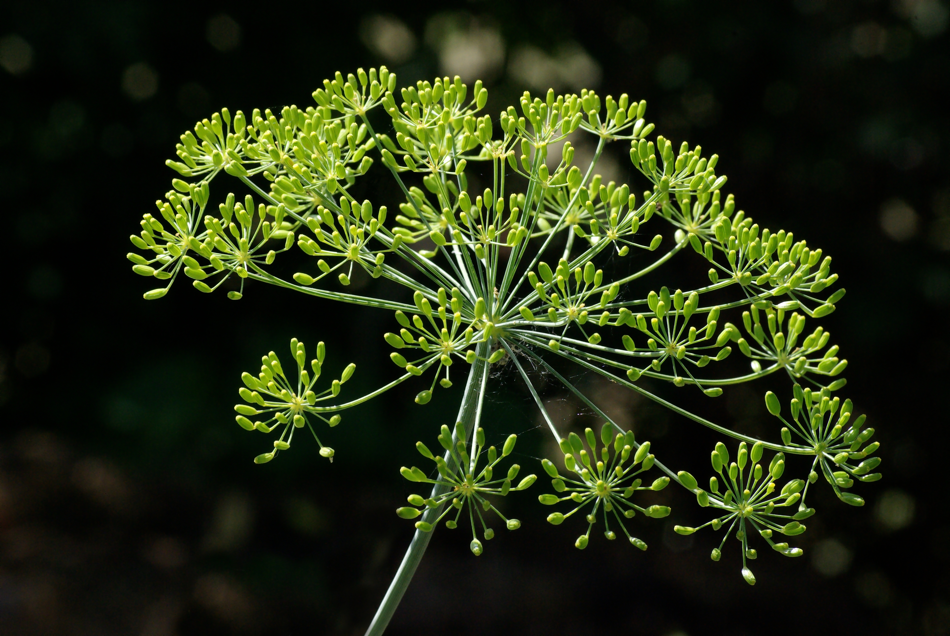 Dill (Anethum graveolens), inflorescence (buds) in a private garden, France.